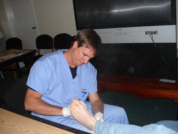 Podiatrist treating foot